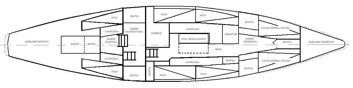 SY Bies plan